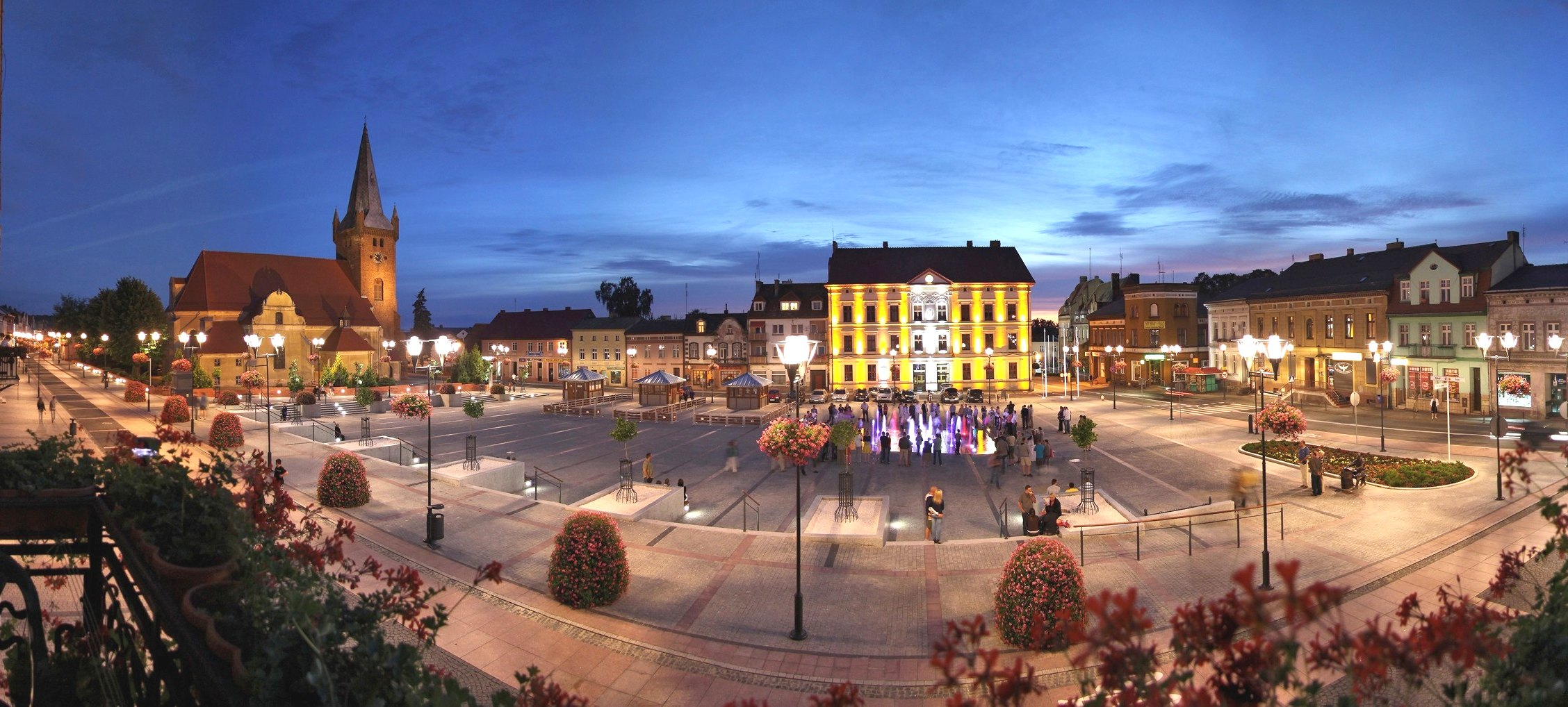 Market in Czarnków